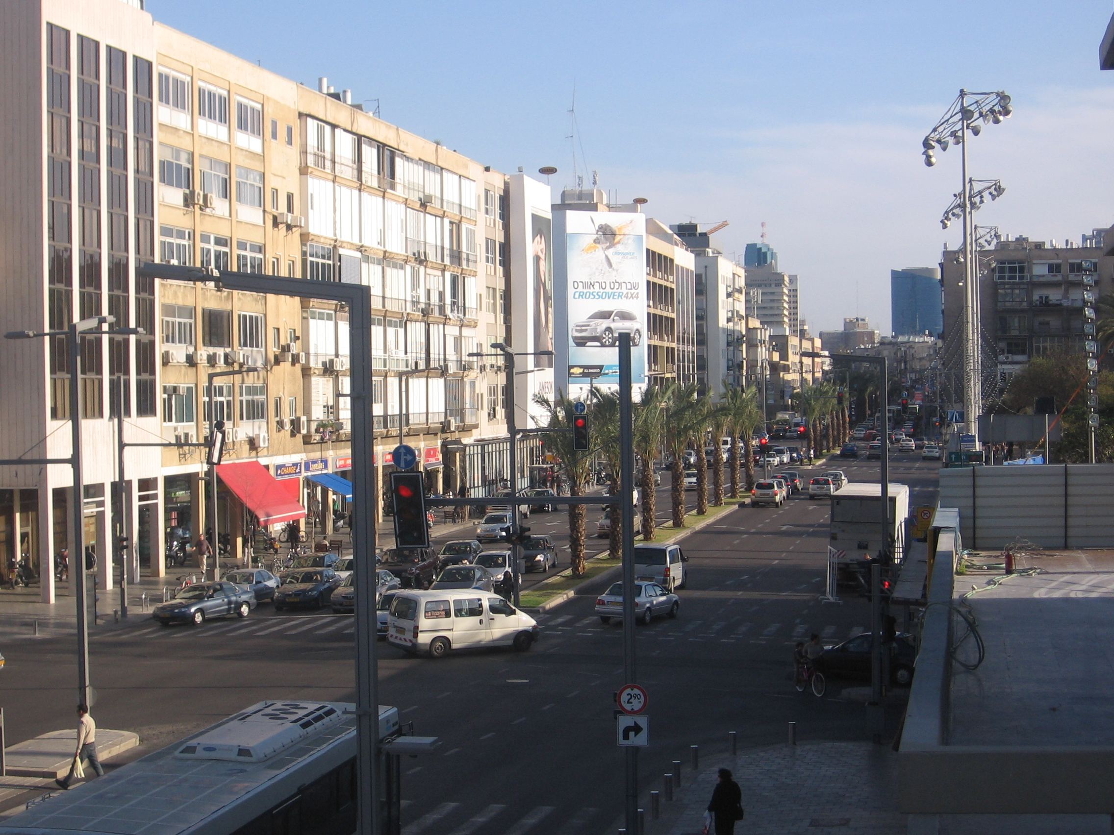 Ibn Gvirol st. in Tel Aviv.